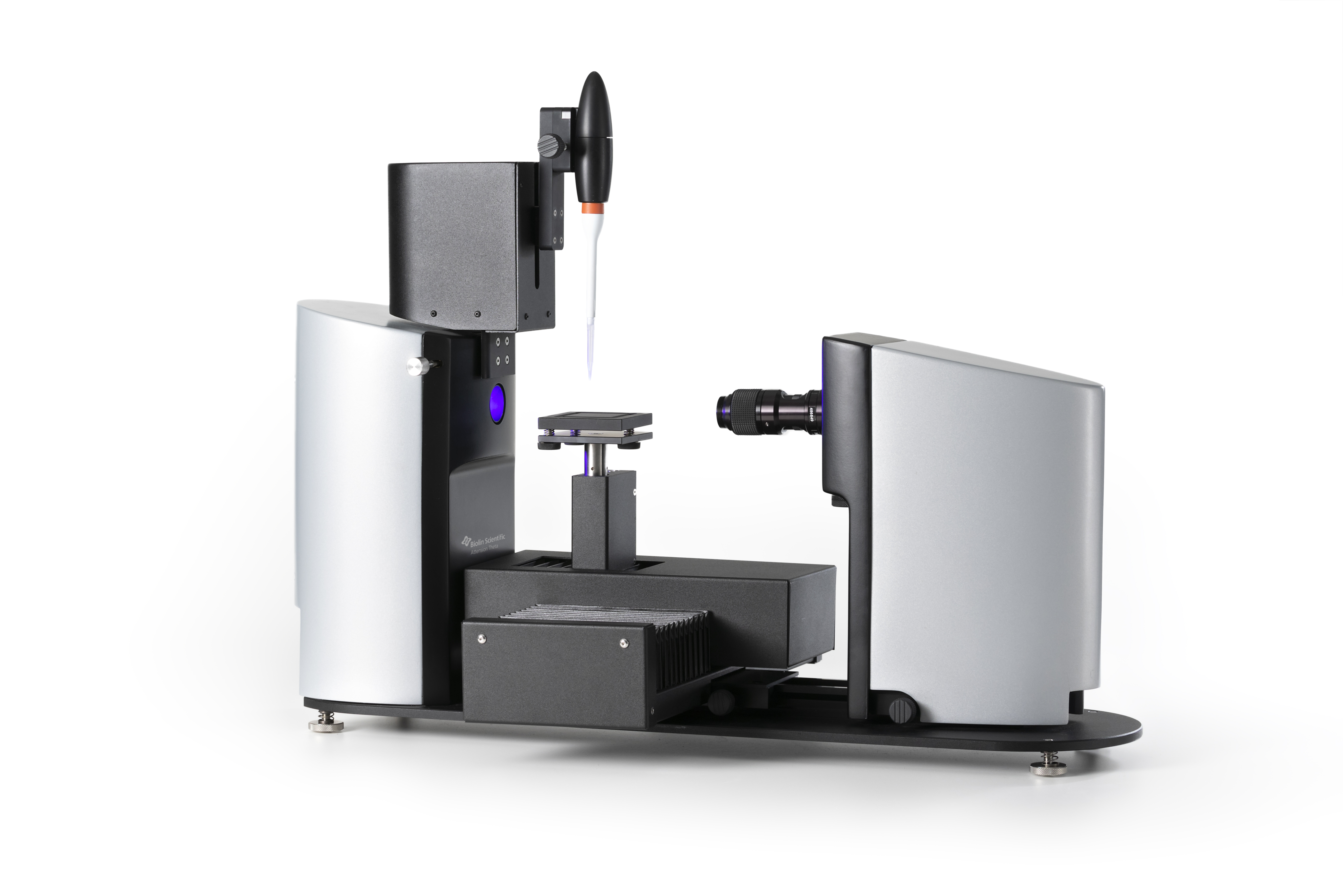 Automatic contact angle meter